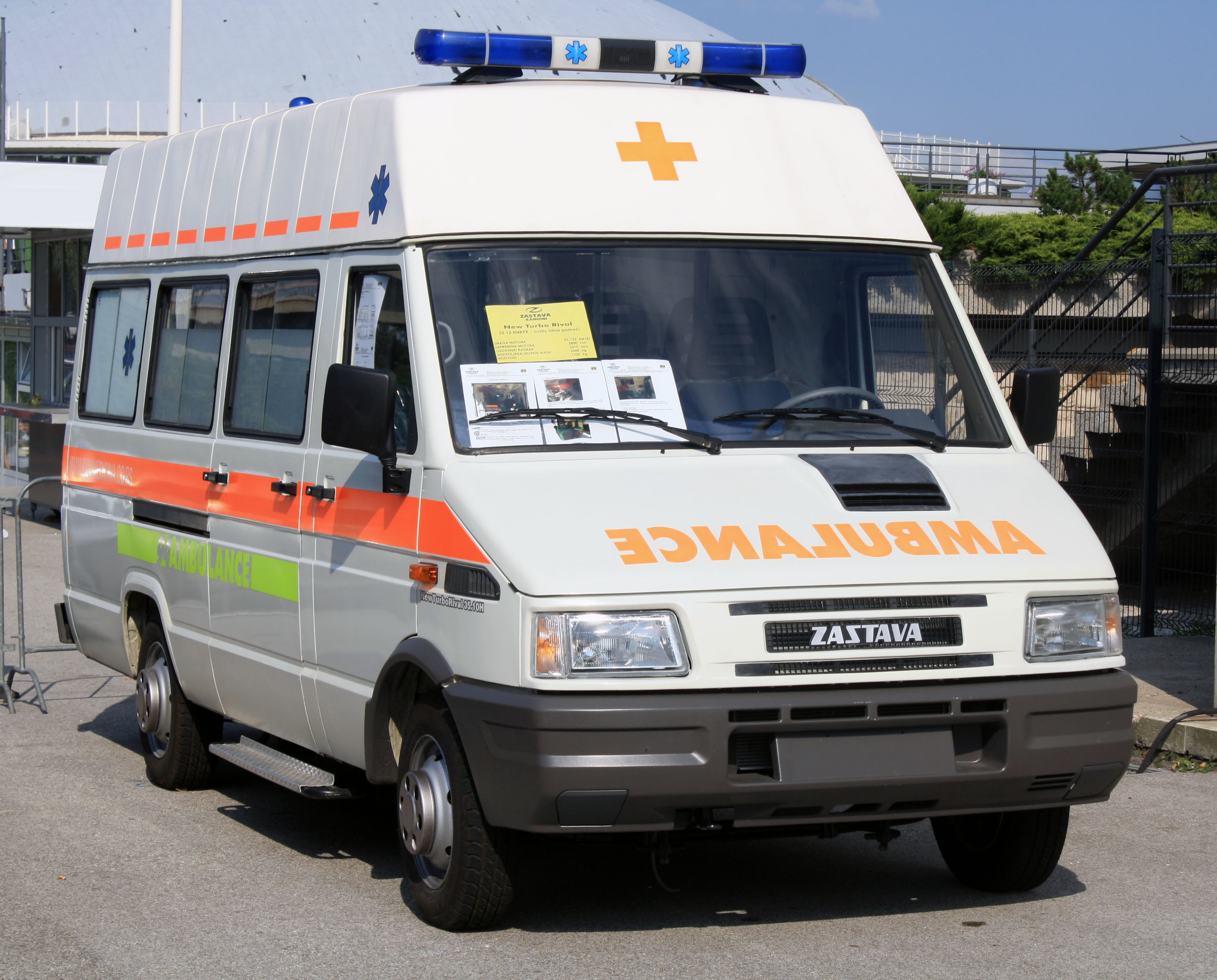 Zastava New Turbo Rival ambulance on display at "Partner 2013" military fair.